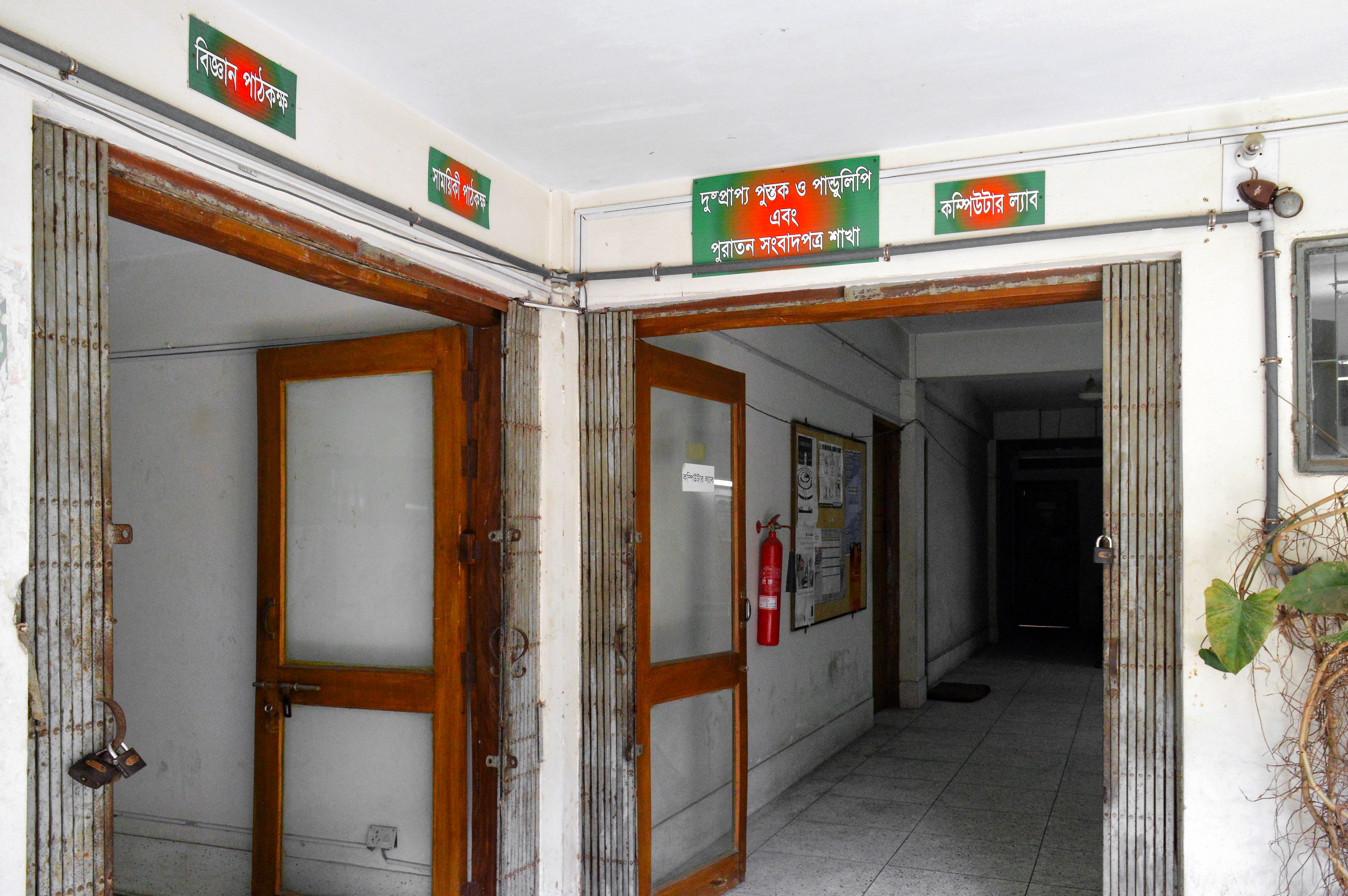 Reading rooms, Chittagong University Library